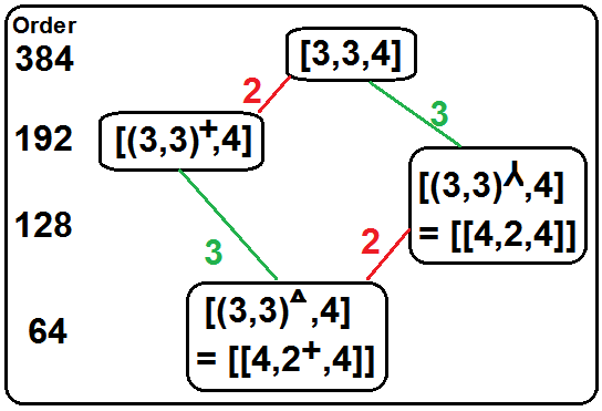 Coxeter notation trionic subgroups